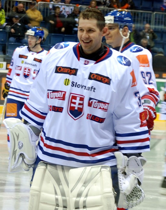 Ján Lašák, goal tender of the slovak nationa team